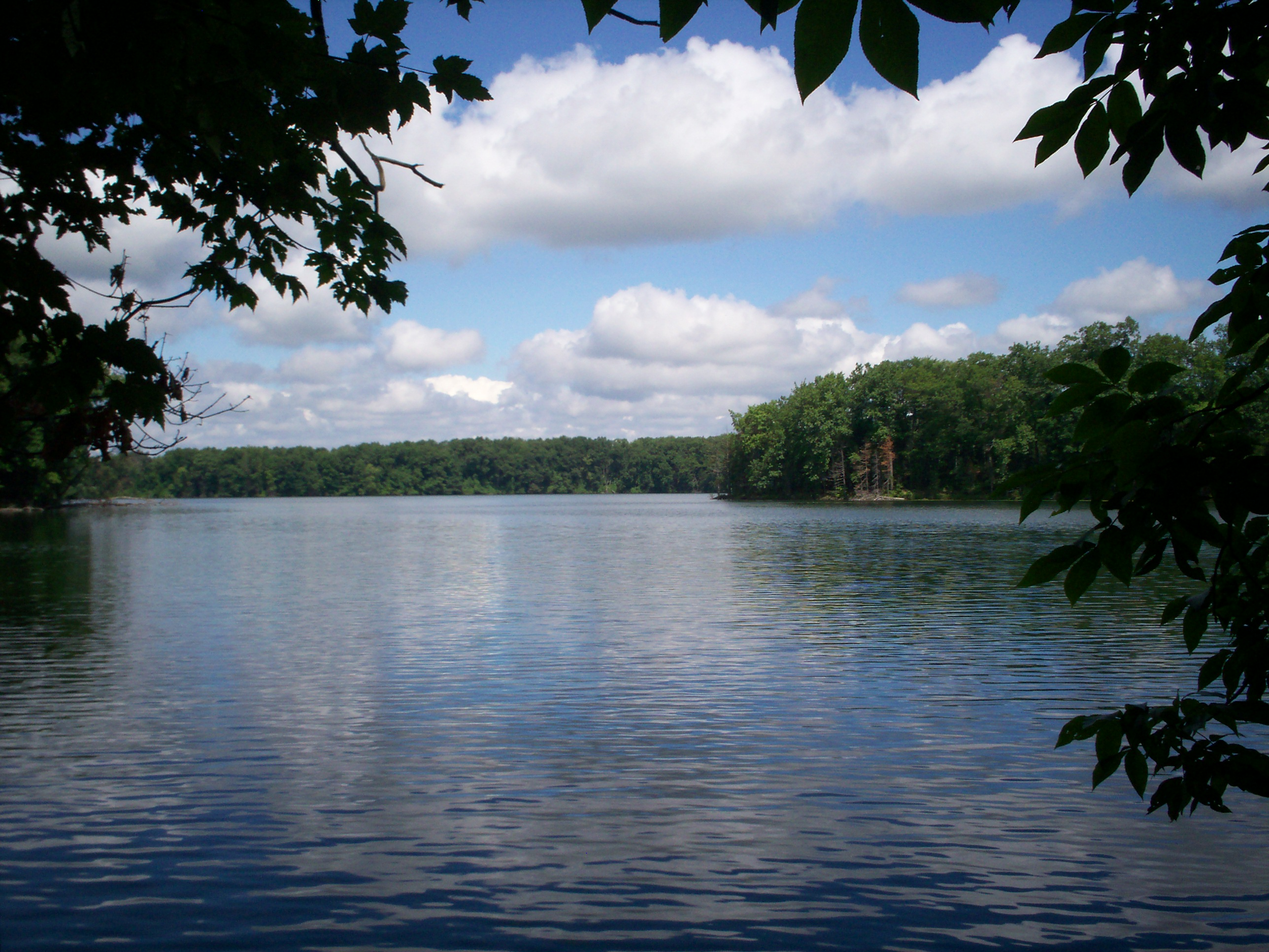 Lake Pippen as seen from Towners Woods Park in Franklin Township, just northeast of Kent, Ohio. It is owned by the city of Akron, Ohio.